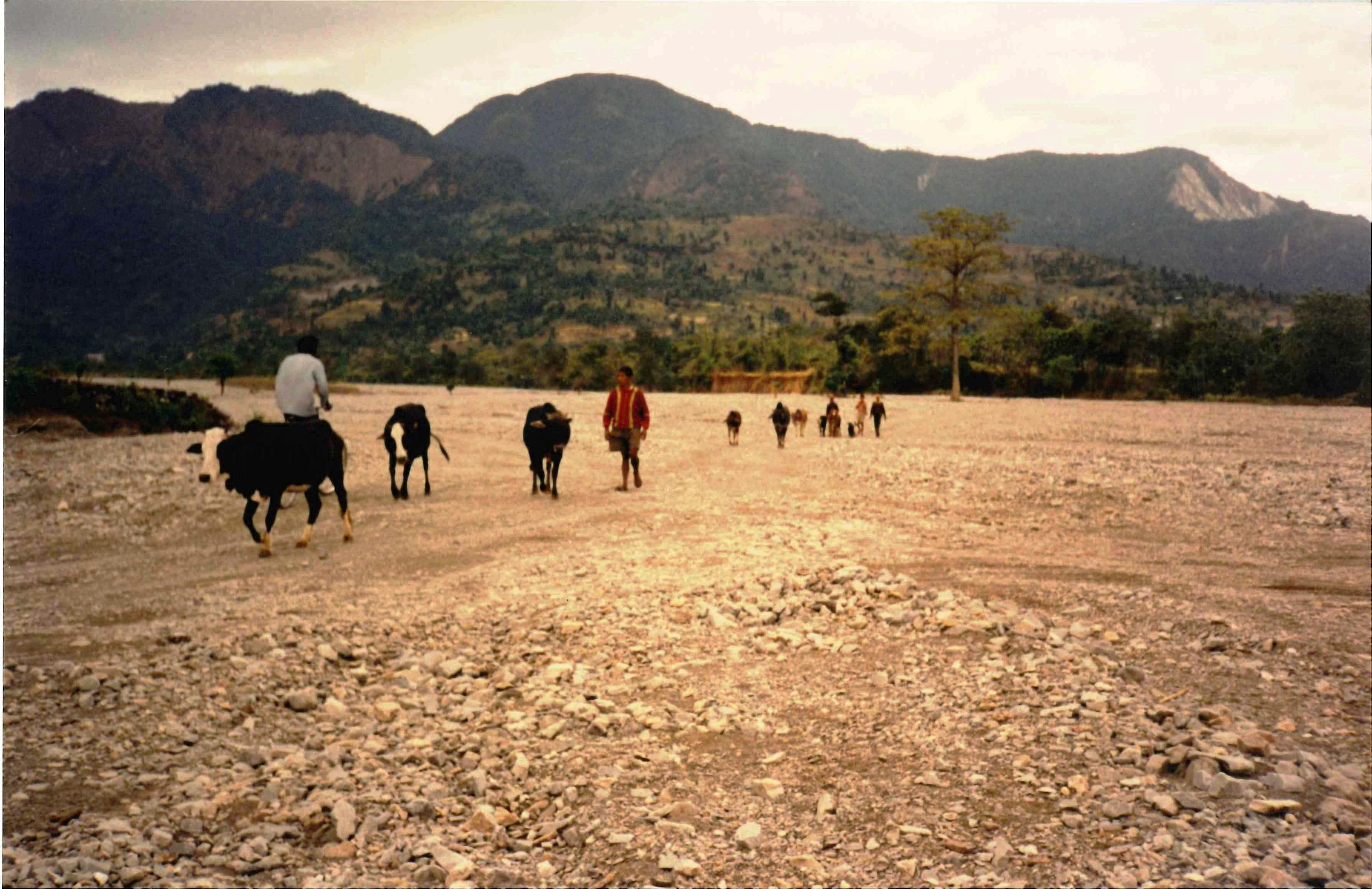 On the way towards Totopara (Toto village) in Northern West Bengal near Bhutan Border.